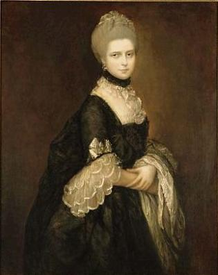 Portrait of Maria Walpole, Countess of Waldegrave, later Duchess of Gloucester (1736-1807)